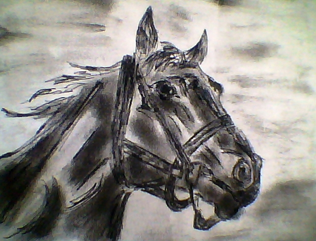 Painting of Hidalgo the legendary Horse